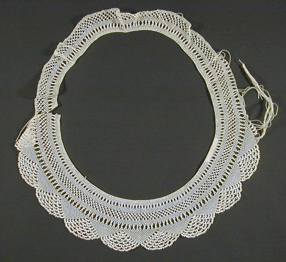 probably Armenia, late 19th century Textiles; textile samples Cotton knotted lace Diameter: 12 3/4 in. (32.38 cm) Gift of Belina Peres in memory of her mother, Zelda Levy (M.83.97.5) Costume and Textiles